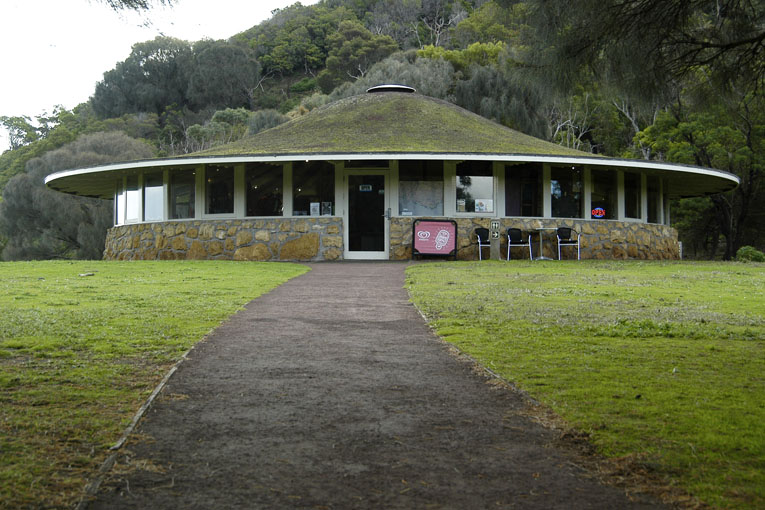 Important public building by Australian architect Robin Boyd